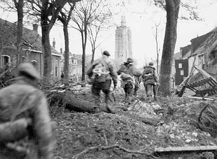 No. 41 (Royal Marine) Commando advance on Westkapple lighthouse